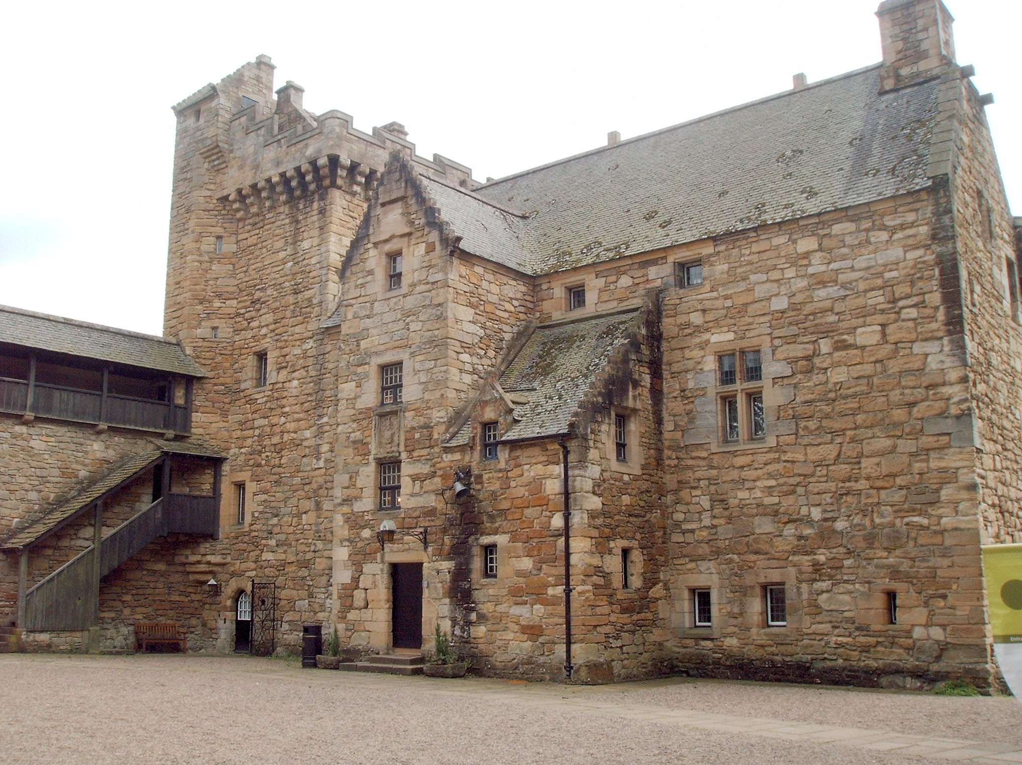 A picture of the palace at Dean Castle, kilmarnock.